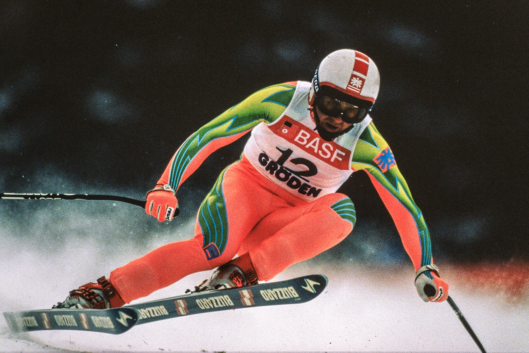 Franz Klammer, Ski World Cup Racer during 1973-1985